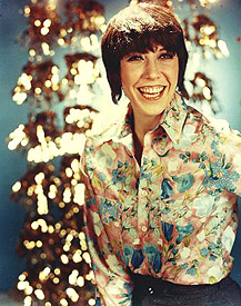 Ms. Tomlin lists this photo as, "1970 Laugh-In publicity shot"